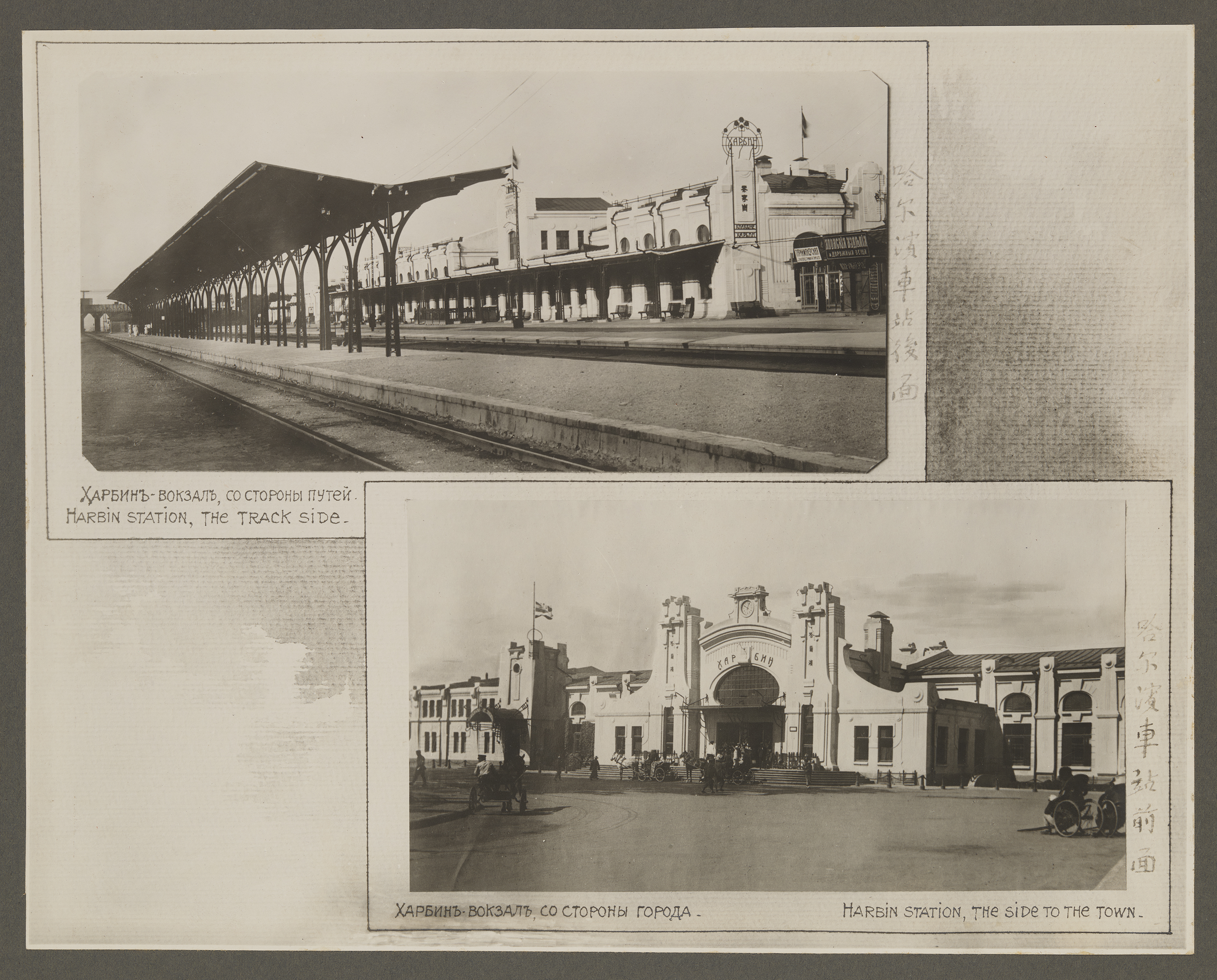 Title: [Chinese Eastern Railway: Harbin Station] Creator: Unknown Date: ca. 1903-1919 Place: Harbin, Heilongjiang, People's Republic of China Part Of: Description: This photograph is part of an album, Views of the Chinese Eastern Railway, which contains 42 photographic prints. The Chinese Eastern Railway, also known as the Trans-Manchurian line of the Trans-Siberian Railway, linked Chita to Vladivostok. Physical Description: 1 photographic print: gelatin silver, part of 1 volume (42 gelatin silver prints); 21 x 27 cm on 27 x 38 cm File: ag1987_0662x_04_opt.jpg Rights: Please cite DeGolyer Library, Southern Methodist University when using this file. A high-resolution version of this file may be obtained for a fee. For details see the web page. For other information, . For more information, View the full album: View the